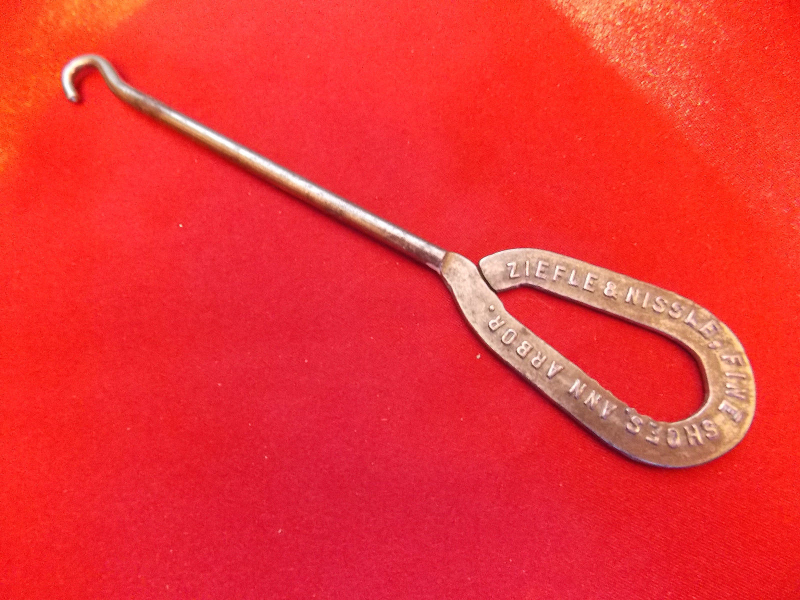 Button hook from Ziefle & Nissle, Fine Shoes, Ann Arbor, Michigan.